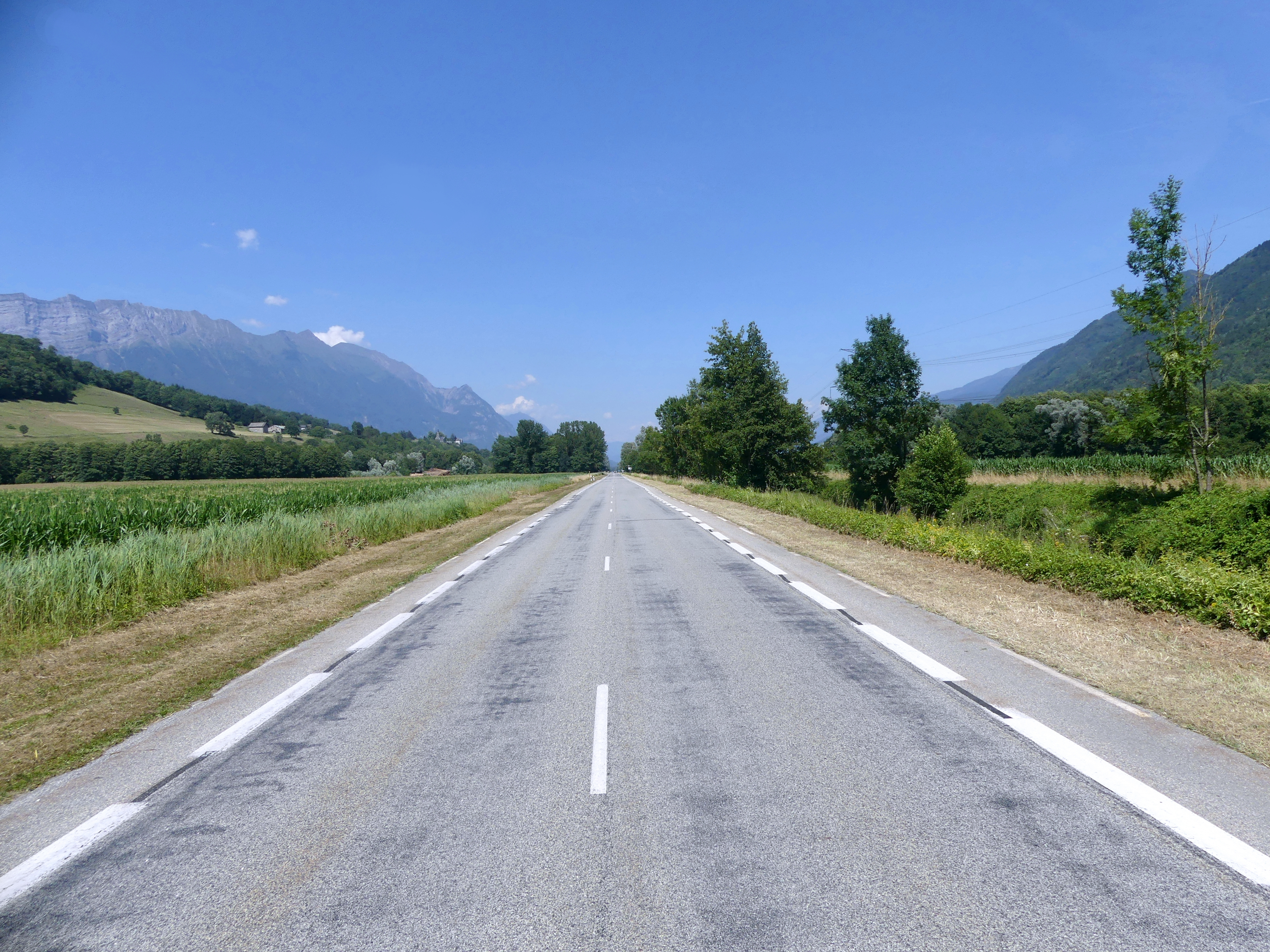 Sight of the Route départementale 925 road passing between Betton-Bettonet (on the left) and Villard-Léger (on the right), in Savoie, France.